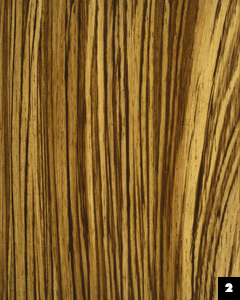 Faux Zebra wood created by Sandra Kiss London of Faux Like a pro.